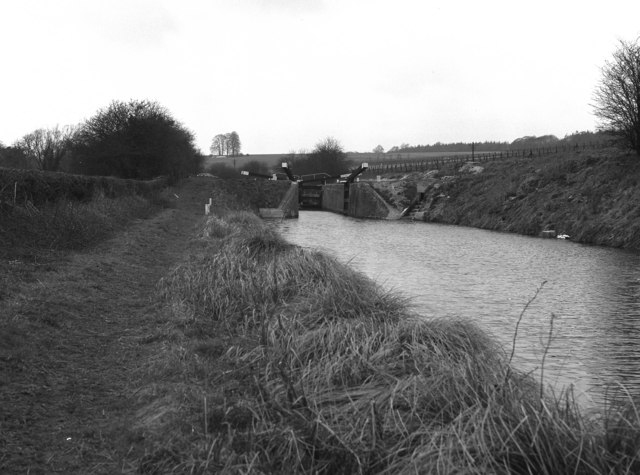 Picketfield Lock No 71, Kennet and Avon Canal Picketfield Lock, as seen here from the east in 1976, had been restored but was not then in use as it was inaccessible to boats from both directions.